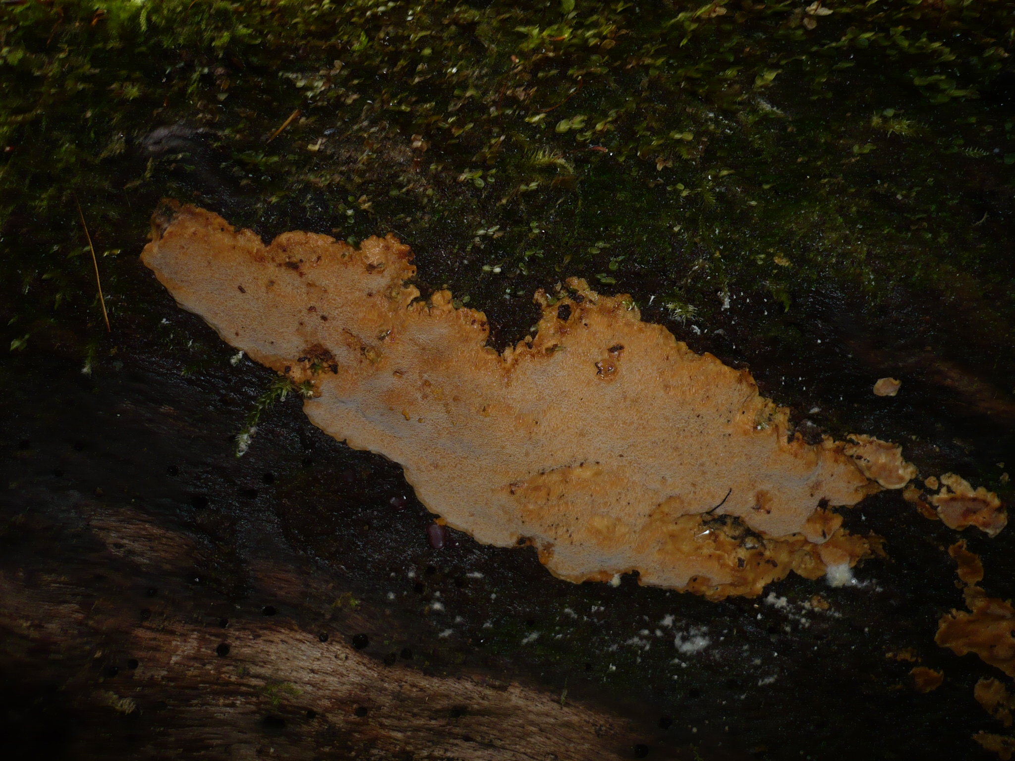 Rigidoporus crocatus For more information about this, see the observation page at Mushroom Observer.